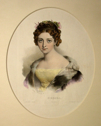 Fedora